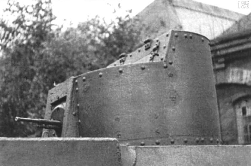 Machine gun turret of the STZ-5 armored tractor "Tank NI". Odessa, Ukraine. August 1941.